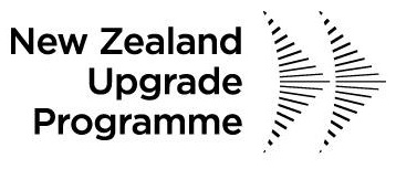 Logo/branding for the New Zealand Upgrade Programme